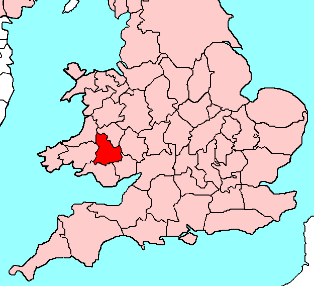 Brecknockshire